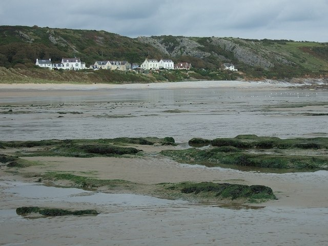 Horton, Port Eynon Bay Horton is a little village in South Gower, set on a steep hill that stretches down to the beach. It shares the bay with Port Eynon which is located at the Western end. Like many Gower villages its roots are mainly agricultural, but Horton also has a long connection with the lifeboat and Methodism.